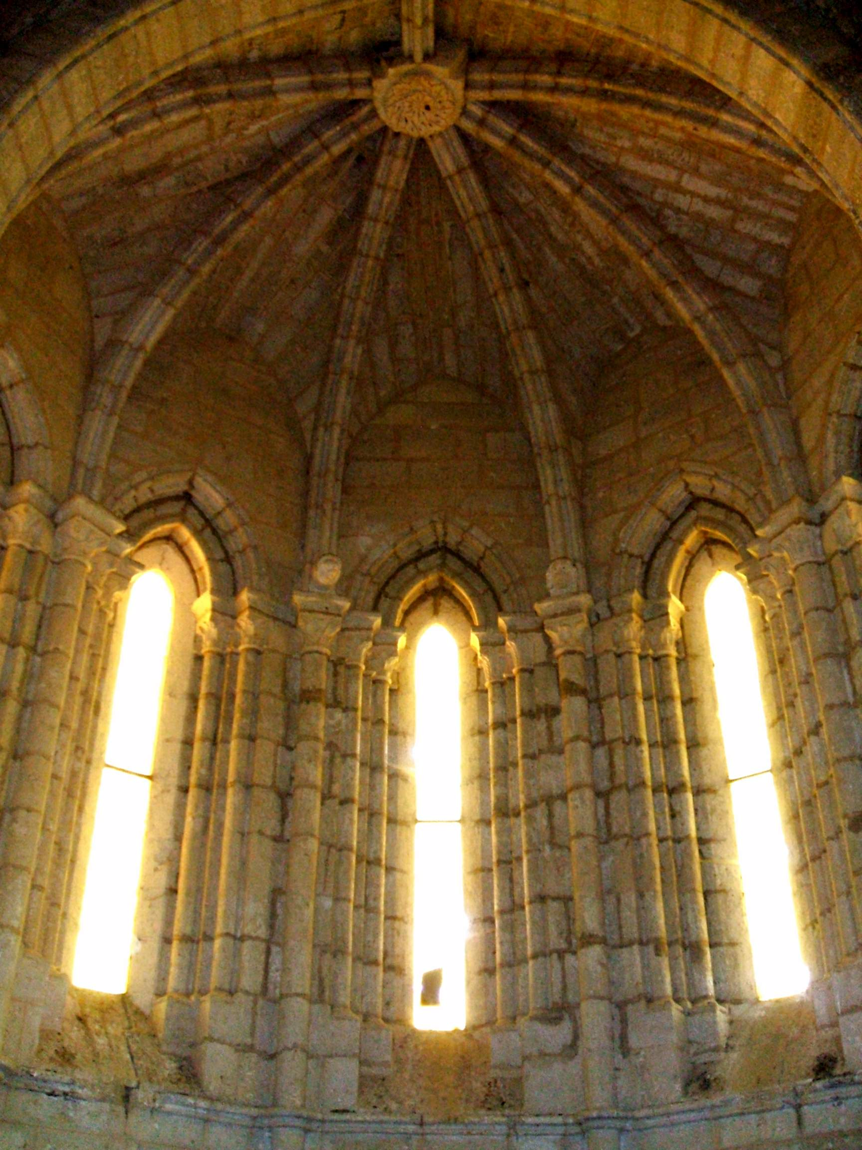 Cabecera de la iglesia del ex-Monasterio premonstratense de Santa Cruz de Ribas, o de la Zarza, Palencia, Castilla y León, España